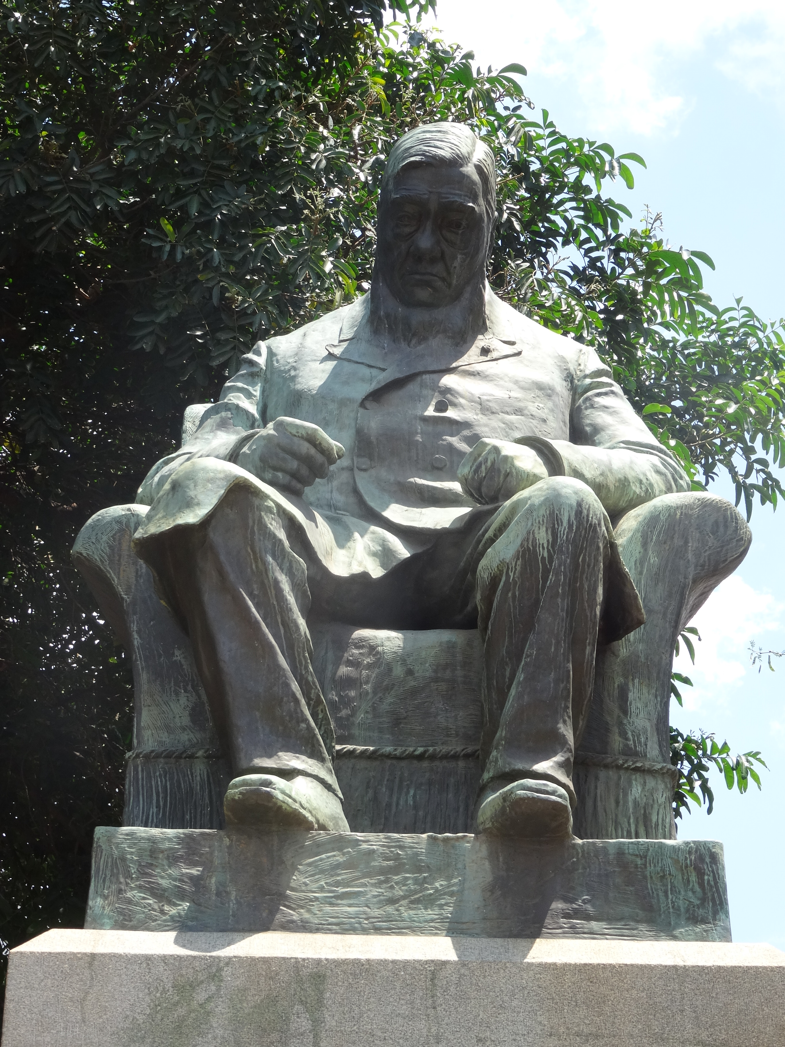 Paul Kruger Statue (1900) by Jean-Georges Archard (1871-1934), Rustenburg, South Africa.